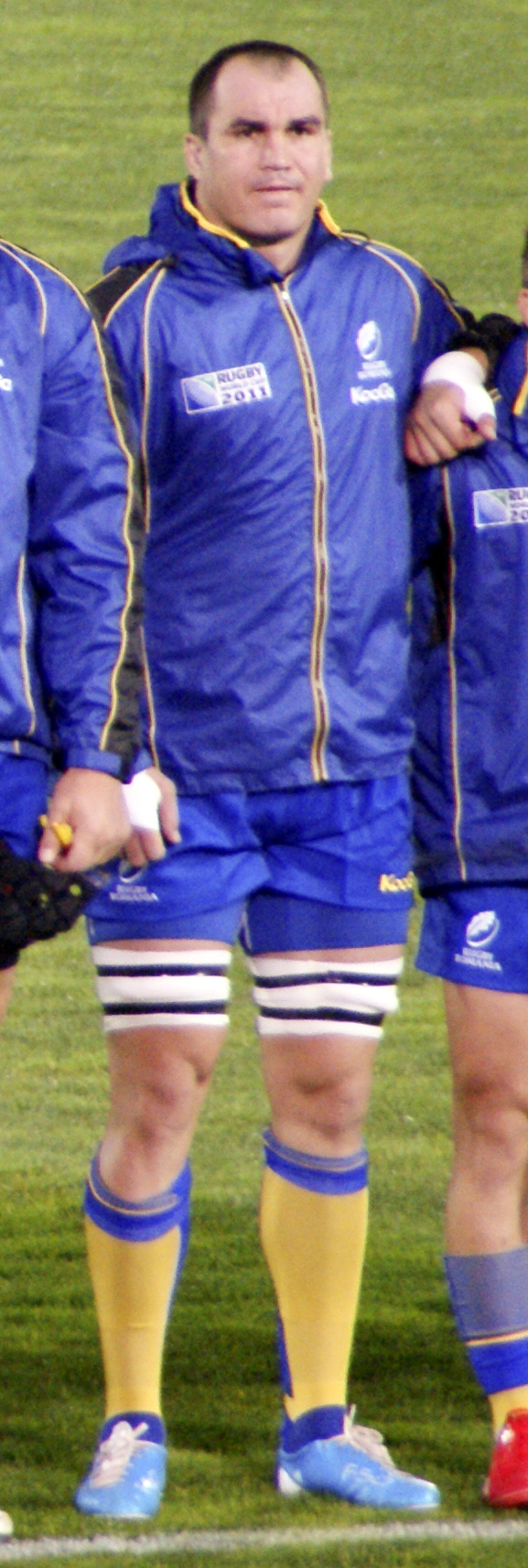 Romanian rugby union player Daniel Carpo during 2011 Rugby World Cup against Georgia.